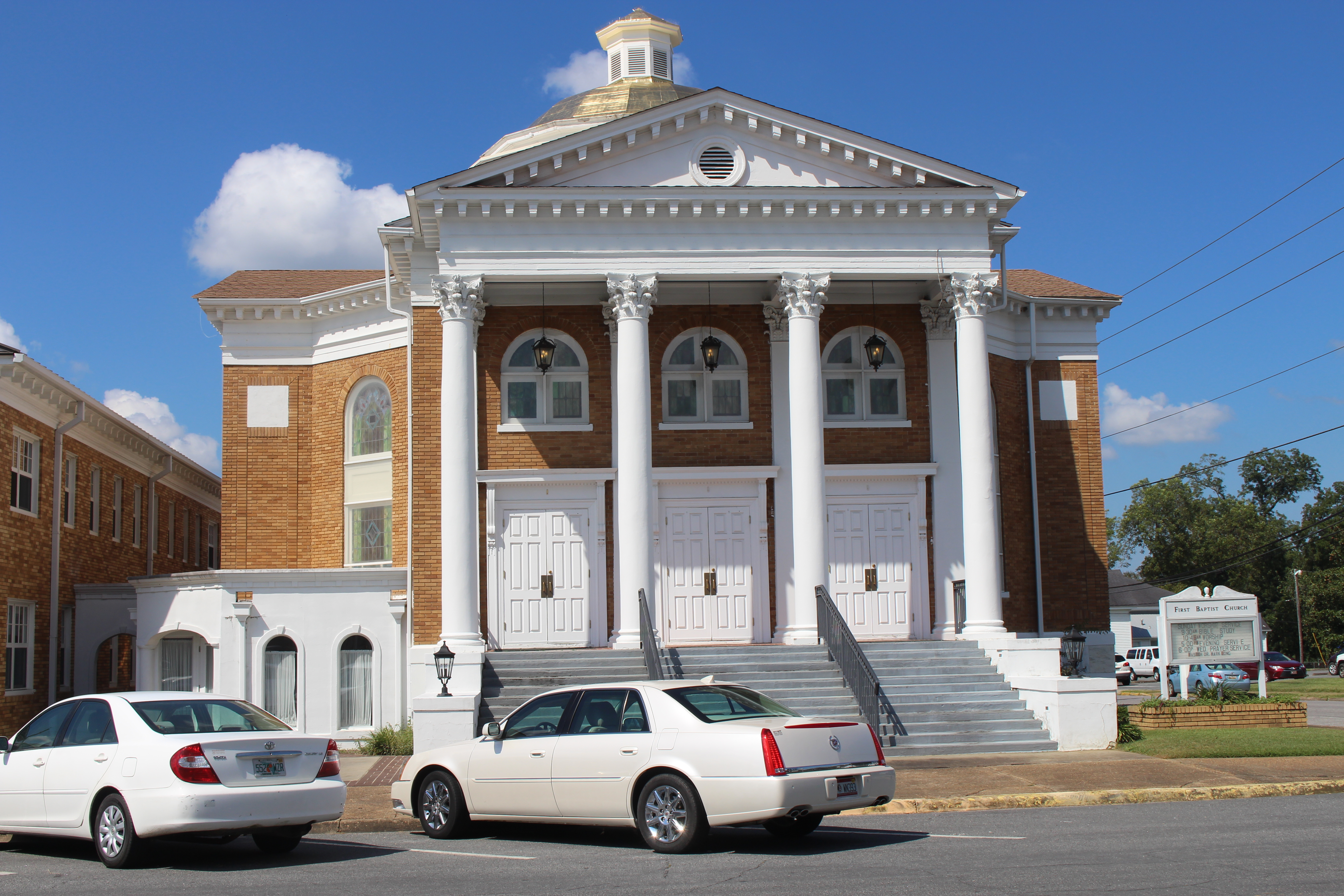 Marianna Historic District, Marianna, Jackson County, Florida